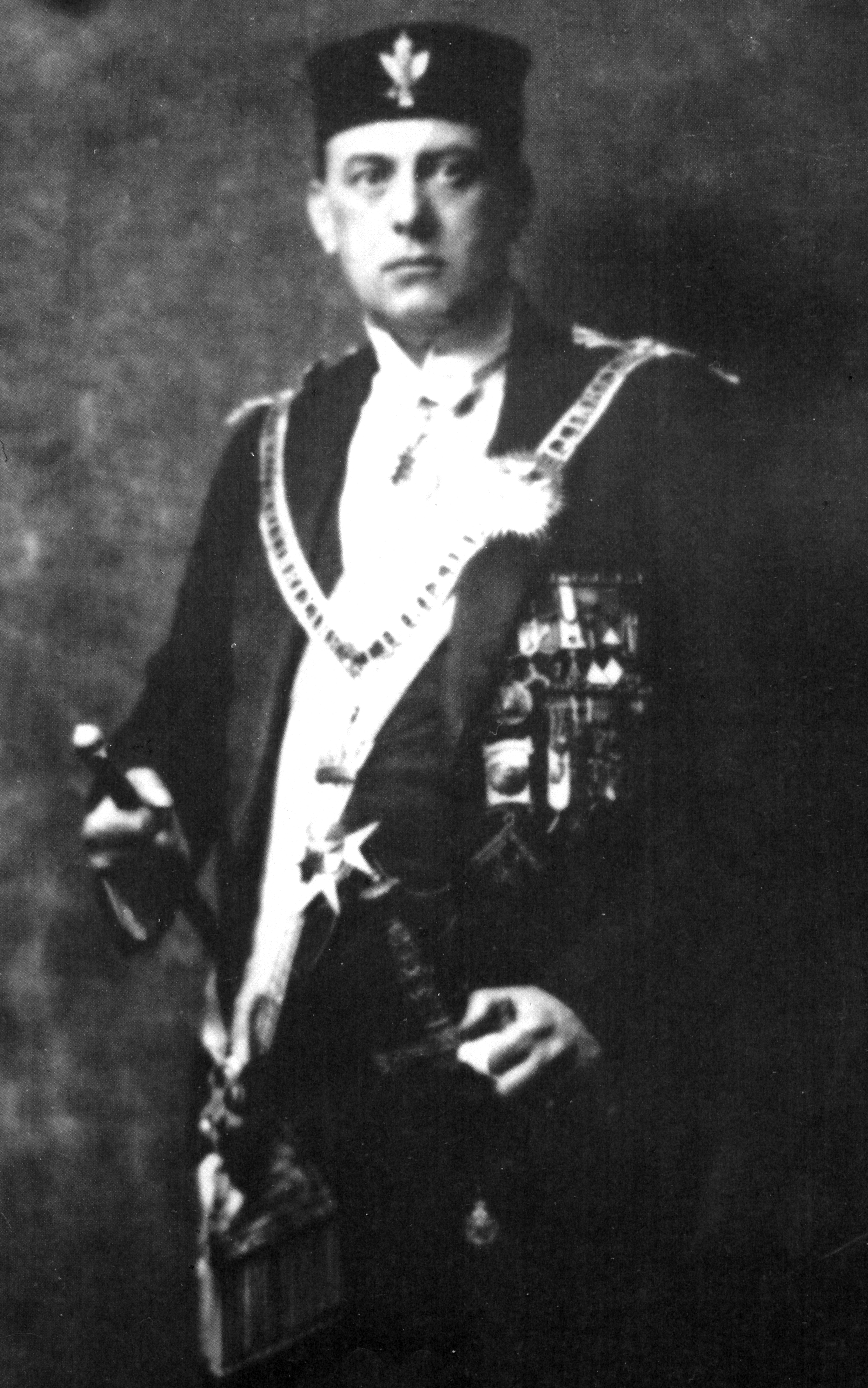 Aleister Crowley in the garments of the Ordo Templi orientis (OTO)